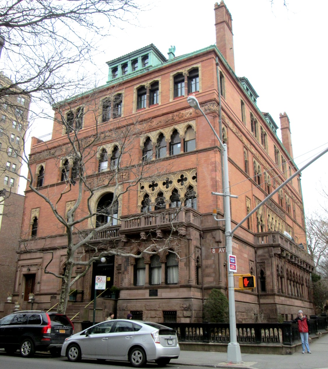 The Montauk Club at 25 8th Avenue on the corner of Lincoln Place in the Park Slope neighborhood of Brooklyn, New York City, was built in 1889-91 and was designed by Francis H. Kimball in the Venetian Gothic style. Built of brownstone and brick, it features verdegris copper and terra cotta produced by the New York Architectural Terra Cotta Works. It is ornamented with representations of the Montauk Tribe of Native Americans. The upper floors of the building are now apartments, but the private club it was built for continues to use part of the building. (Sources: Guide to NYC Landmarks (4th ed.) and AIA Guide to NYC (5th ed.))